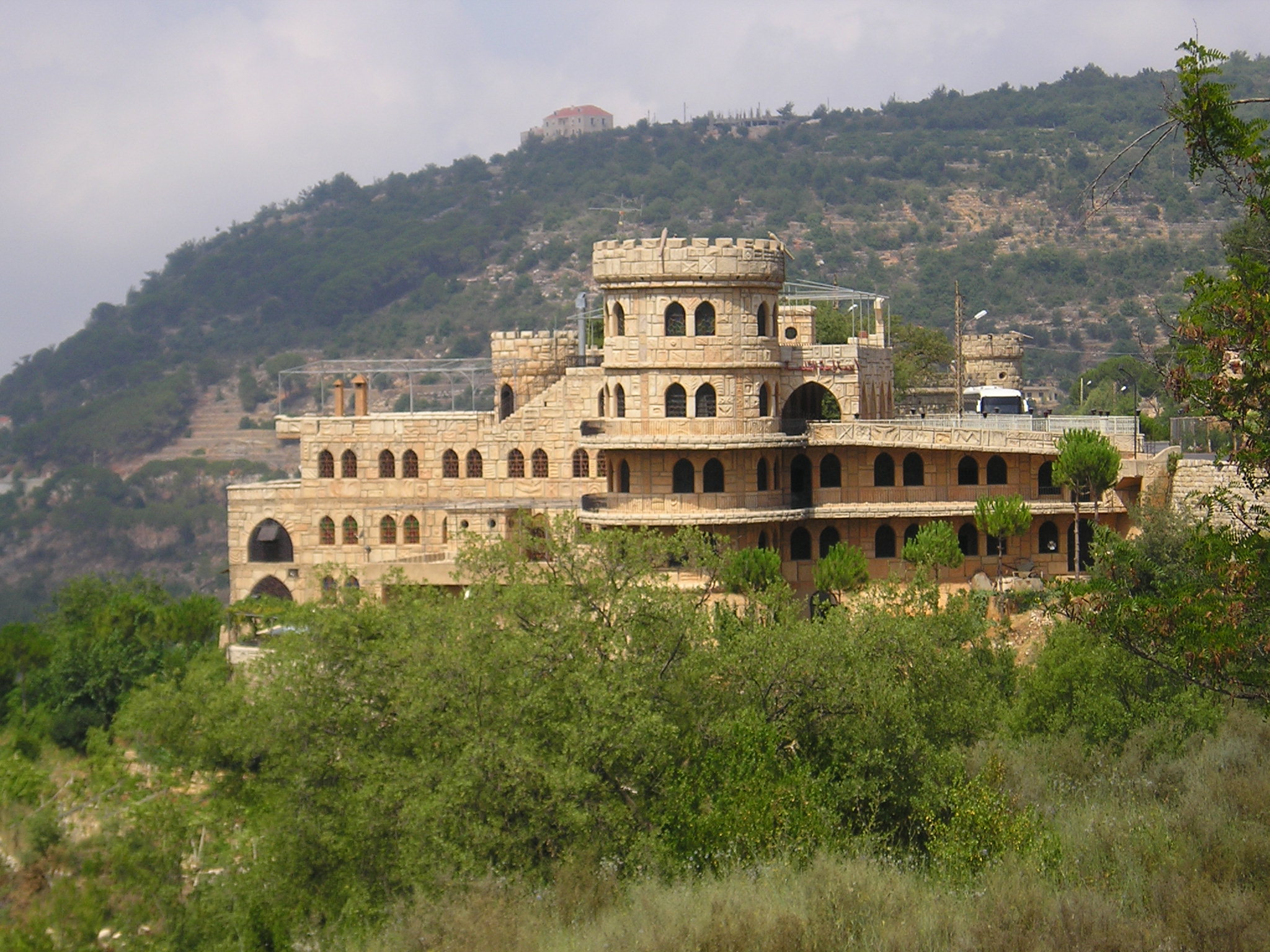 Moussa Castle near Deir al-Qamar, Lebanon - a view from the road from Beiteddine